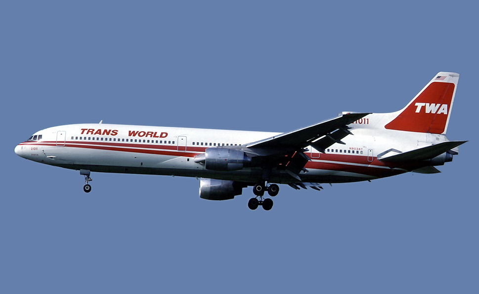 Lockheed L-1011-385-1-15 TriStar 100. N8034T (cn 193B-1230). Trans World Airlines - TWA. Zurich (- Kloten) (ZRH / LSZH)